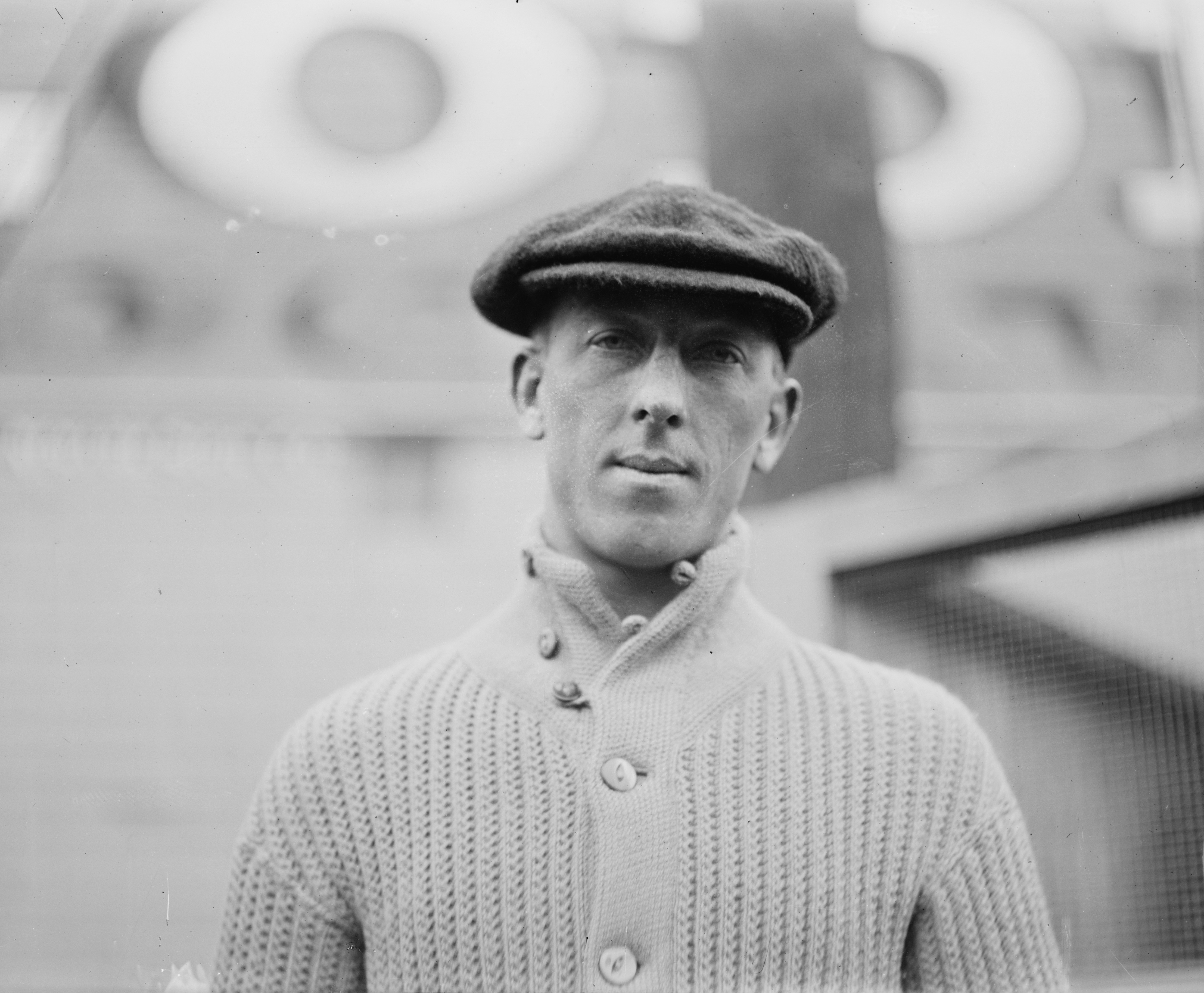 Alfred Grenda, Australian cyclist